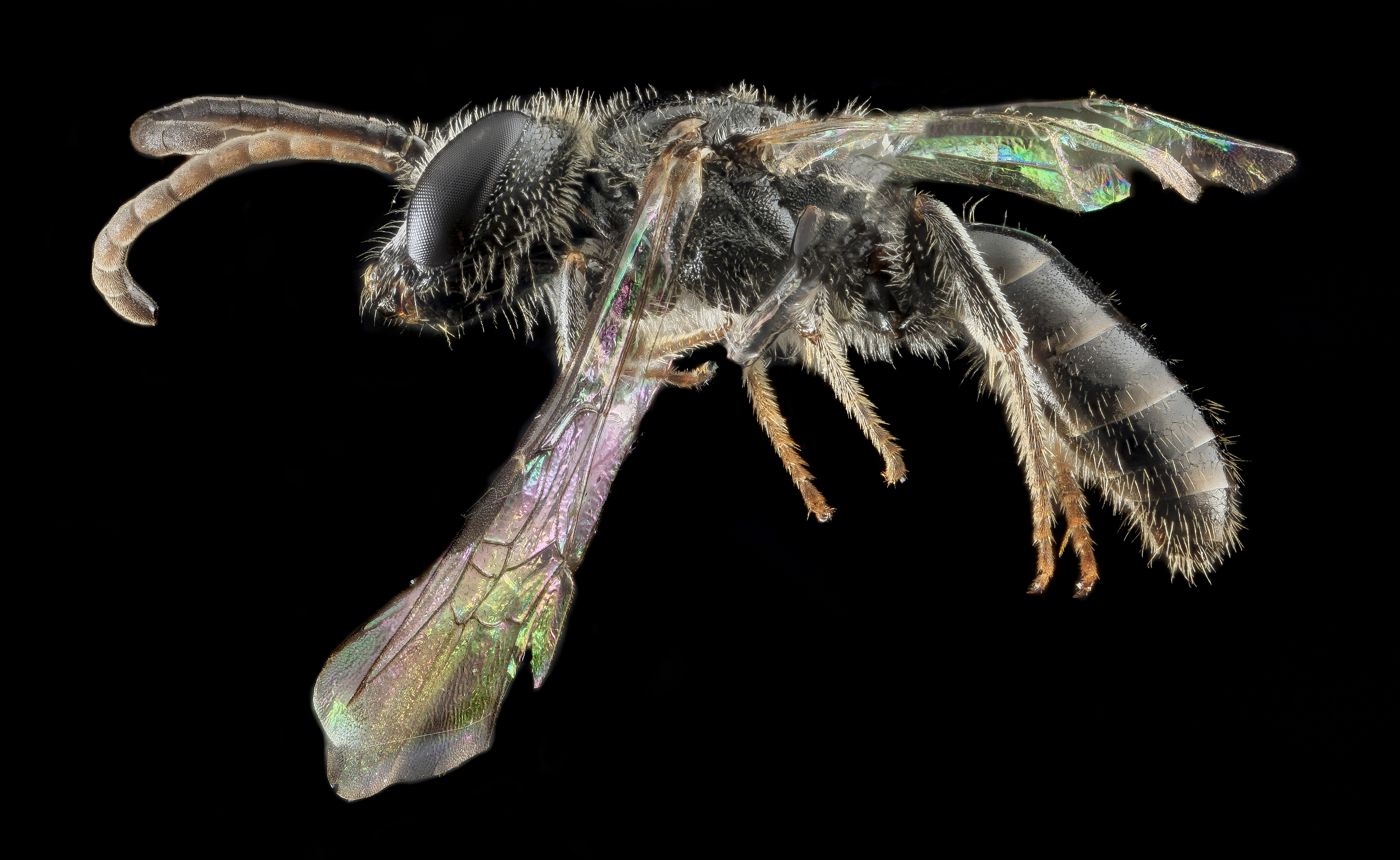 Male Lasioglossum foxii, collected in northern Baltimore County, Maryland